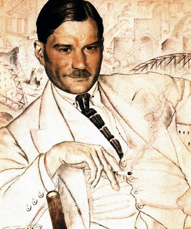 Boris Kustodiev. Portrait of the author Yevgeny Zamyatin. 1923. Drawing.